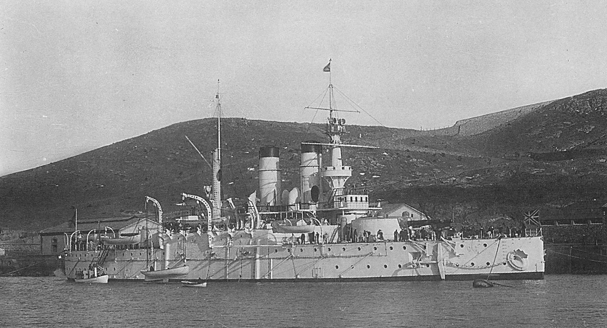 Imperial Russian Ironclad warship Sisoy Velikiy.